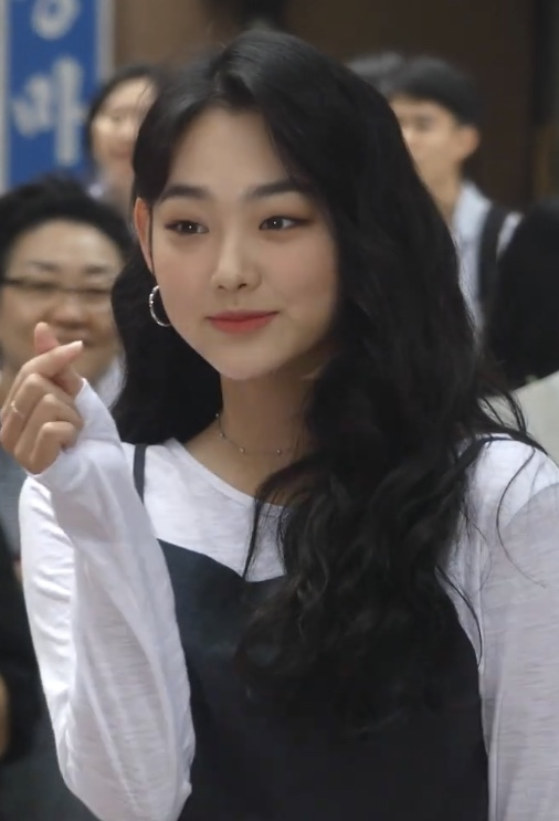 Kang Mi-na on September 1, 2019 for Hotel del Luna